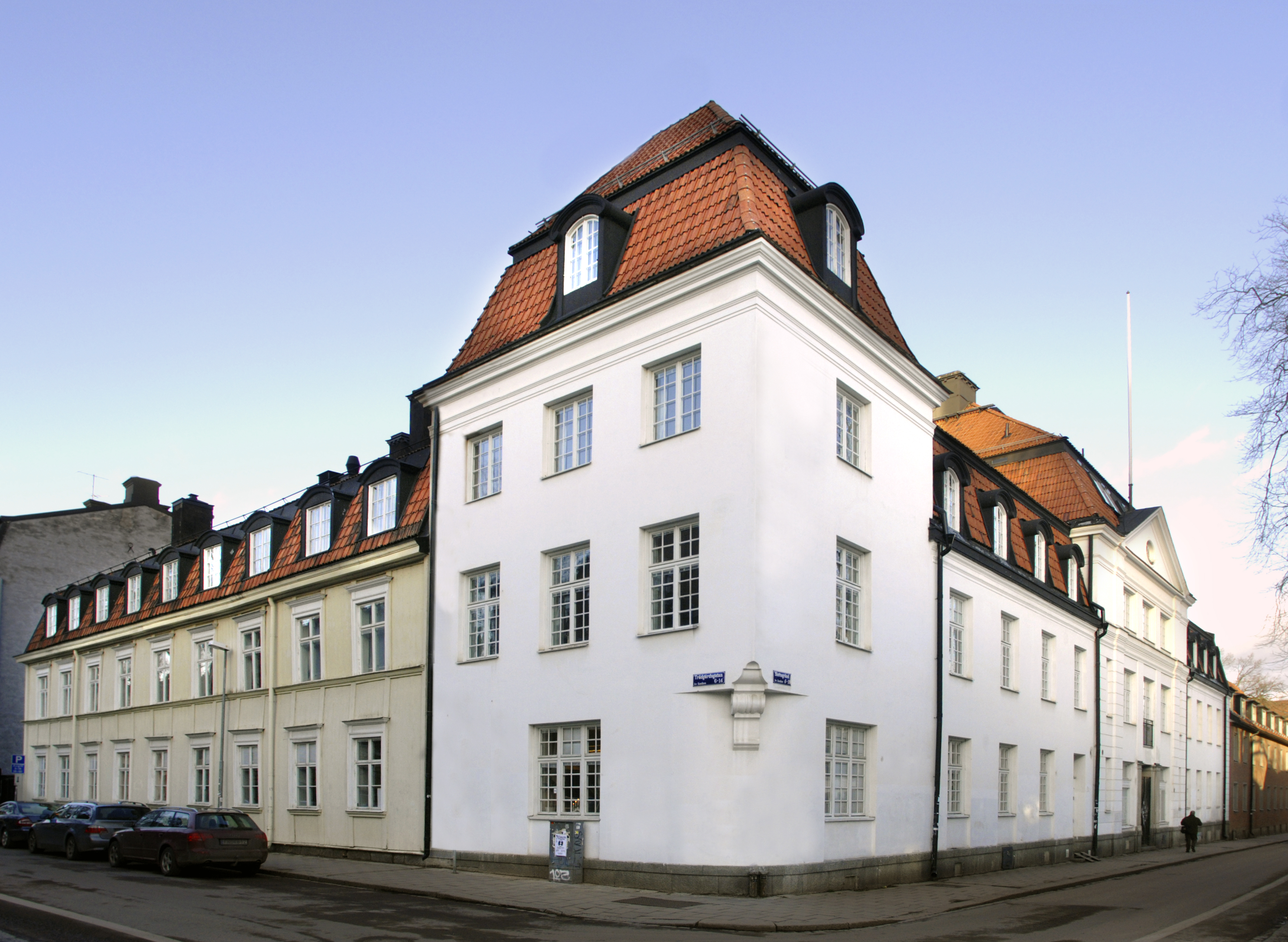 Newaninstitutet, Principal building seen from Slottsgränd